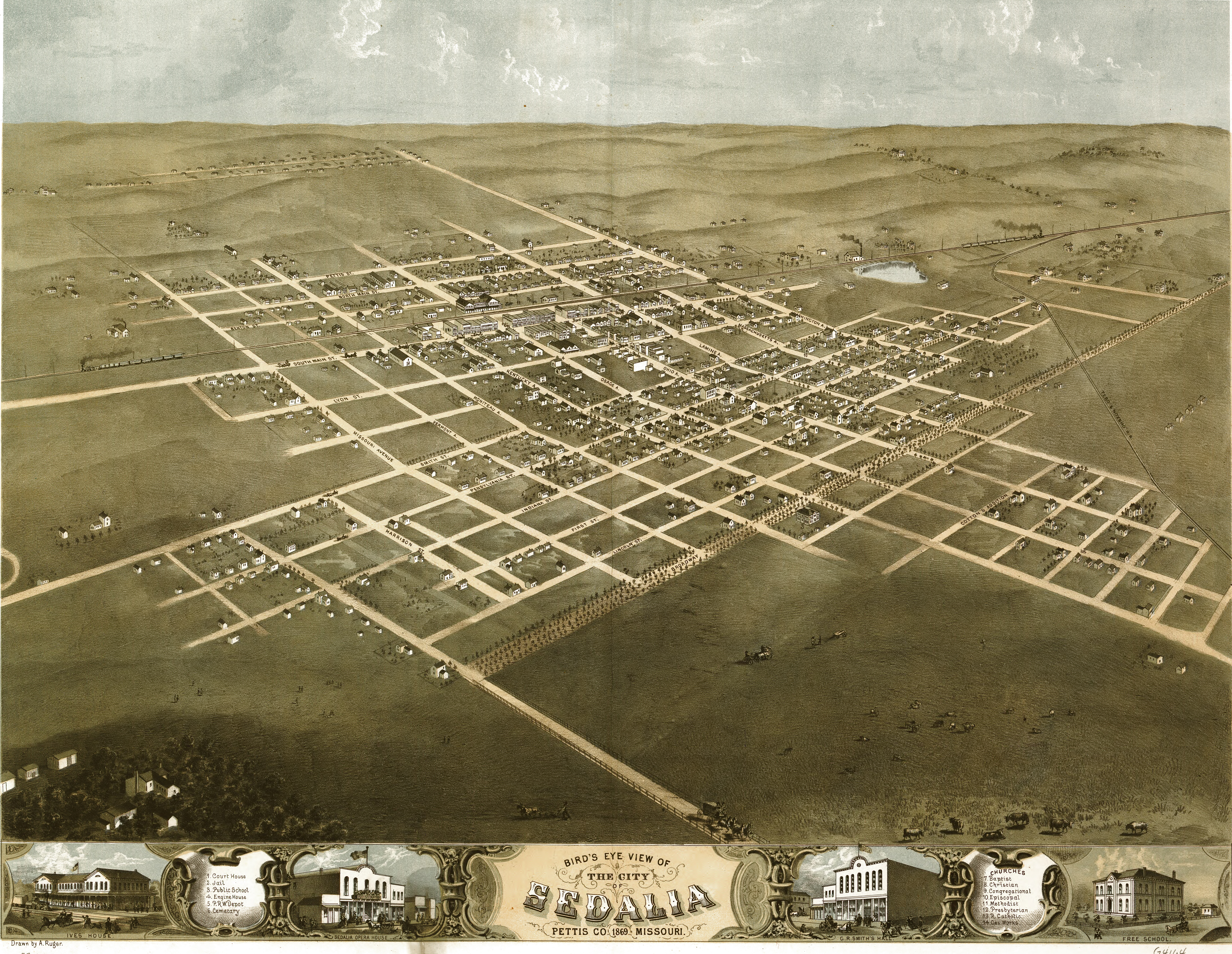 Bird's eye view of the city of Sedalia, Pettis Co., Missouri 1869. Drawn by A. Ruger.